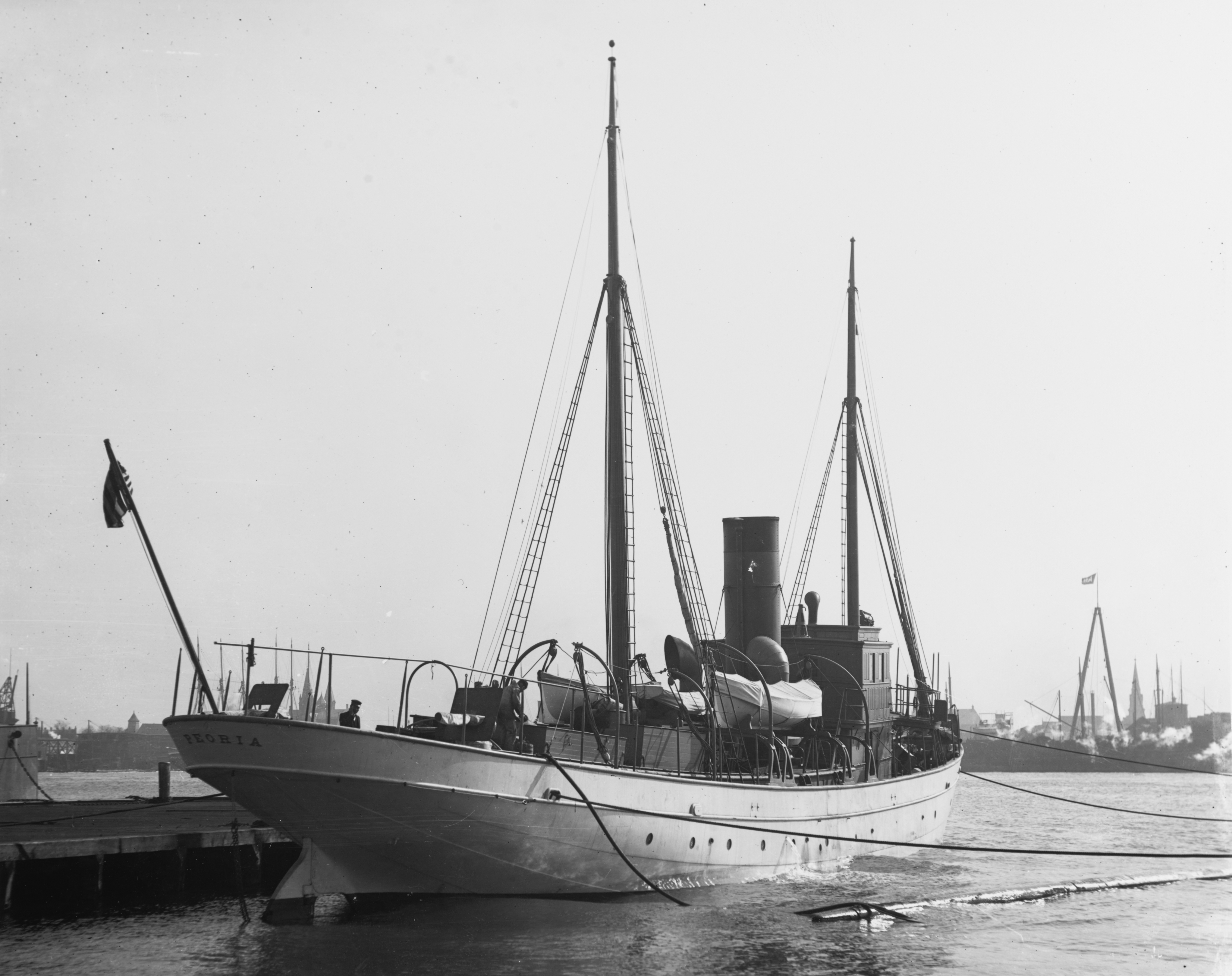 (1898-1922, later AT-48 & YT-109) at the Boston Navy Yard, Charlestown, Massachusetts on 19 February 1901. Photograph from the Bureau of Ships Collection in the U.S. National Archives.